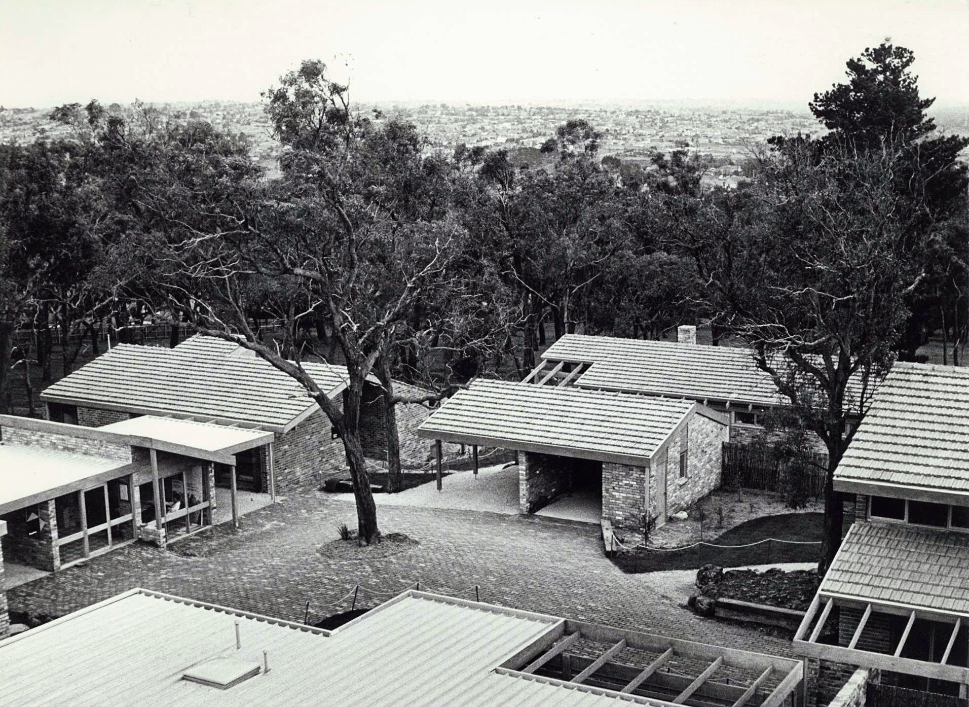 Winter Park cluster housing, High Street, Doncaster, Victoria